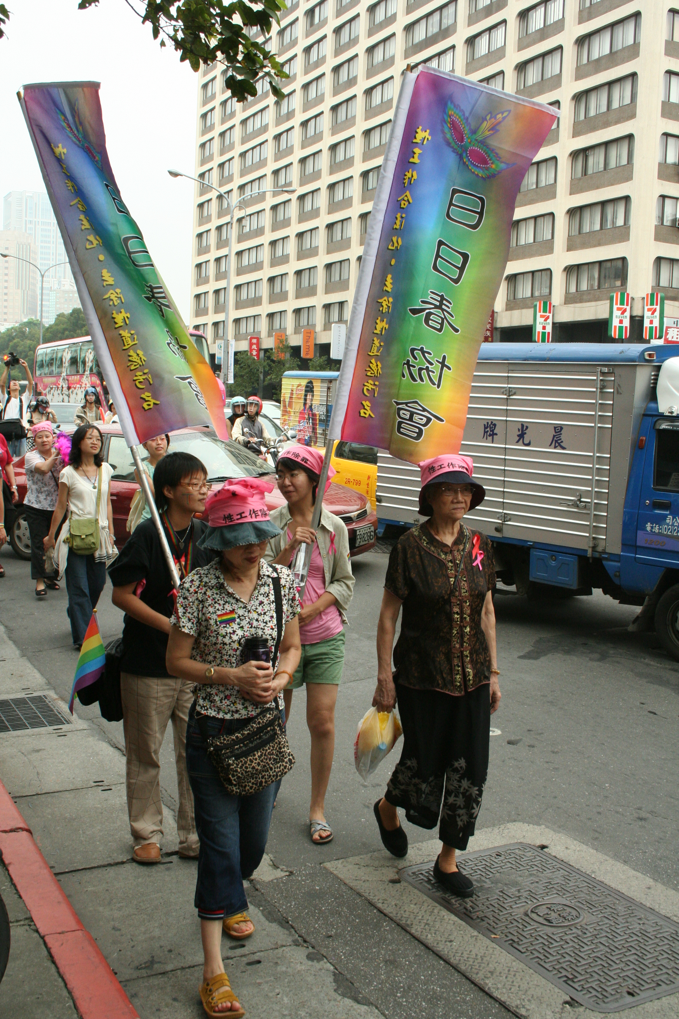 Collective of Sex Workers and Supporters (COSWAS) in Taiwan Pride 2006.